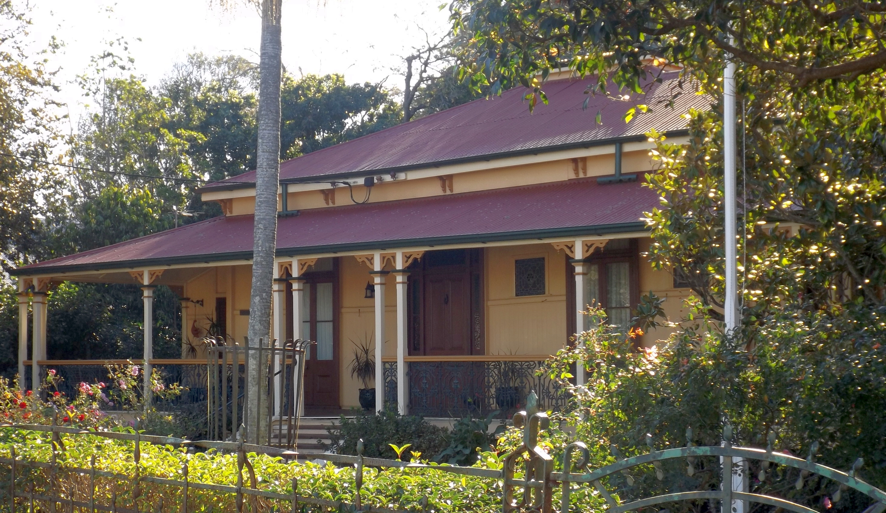 Photo of the Woodlands residence at Ashgrove, Brisbane, Queensland, Australia.